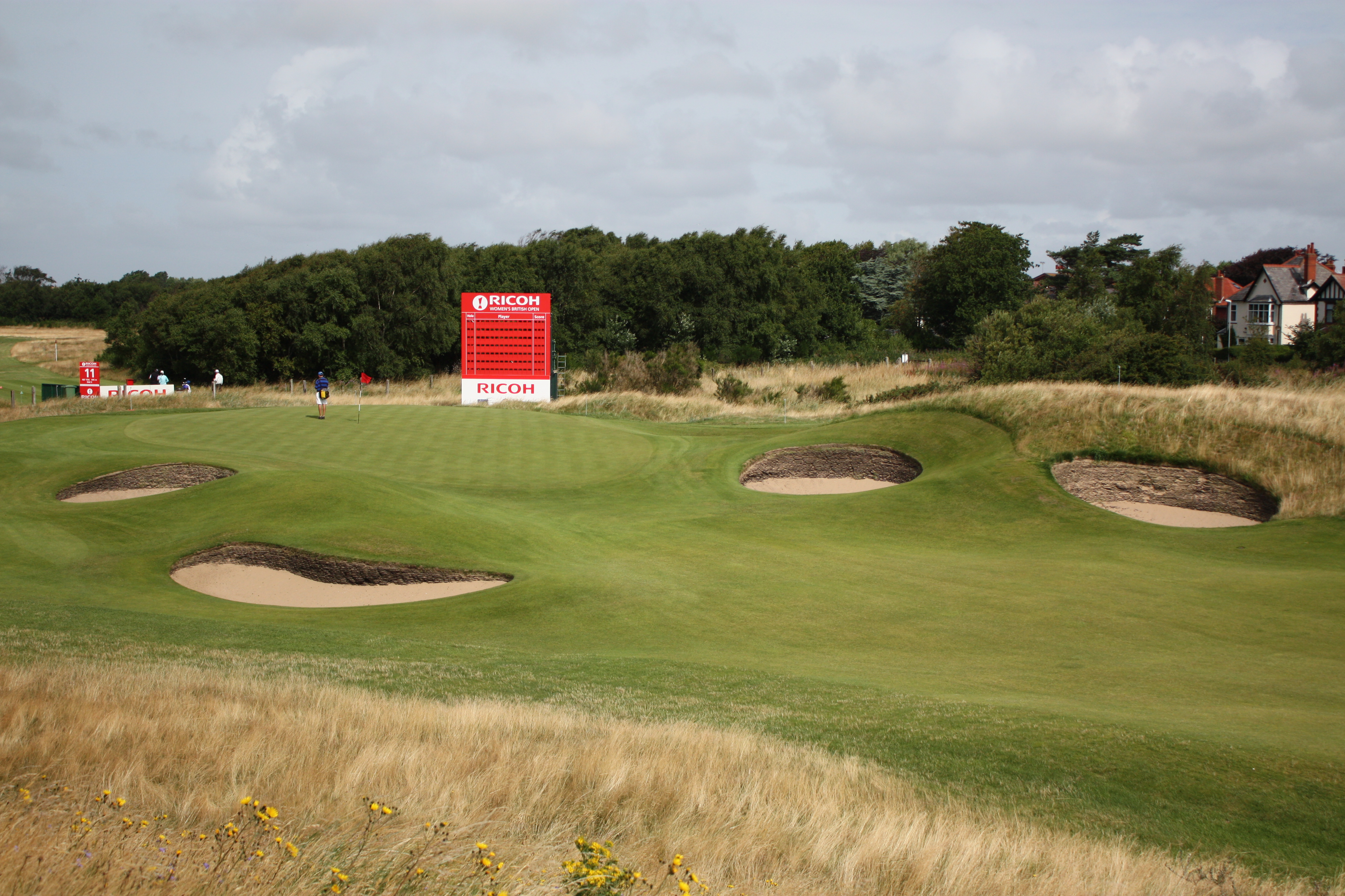 LYTHAM ST ANNES, UNITED KINGDOM - JULY 27: 10th hole green before 2009 Ricoh Women's British Open held at Royal Lytham & St Annes on July 27, 2009 in Lytham St Annes, England. (Photo by Wojciech Migda)